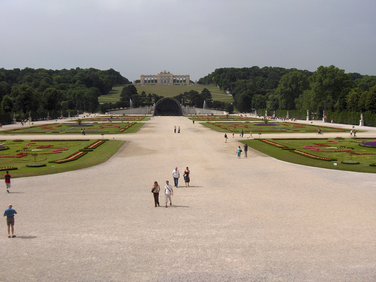 Garden and Gloriette as seen from the stairs at the backside of the Schönbrunn Palace in Vienna, Austria